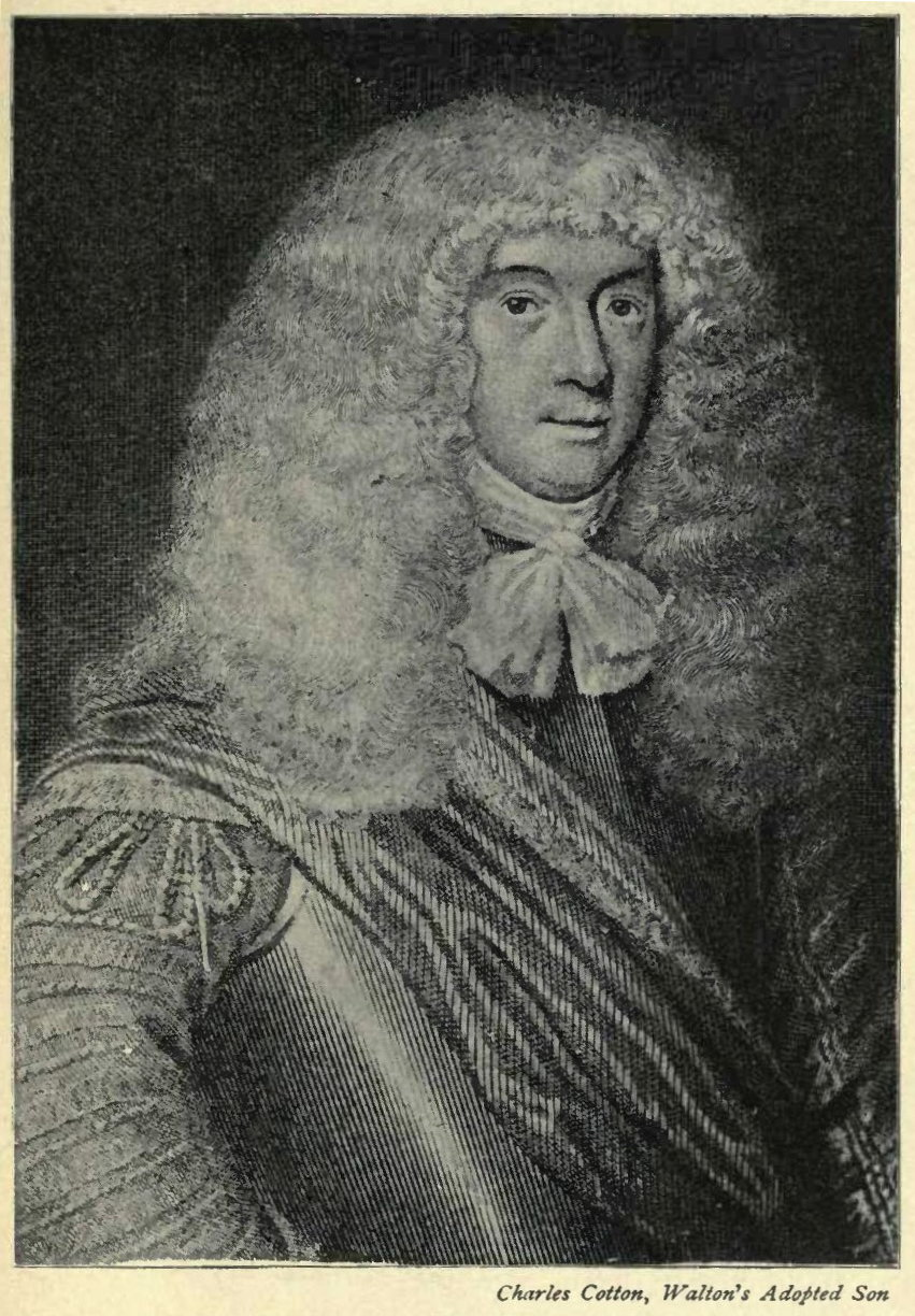 Charles Cotton from Izaak Walton by Alexander Cargill in Angling (1897)